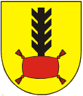 Municipal coat of arms of Hovorany village, Hodonín District, Czech Republic.